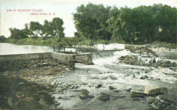 Postcard of the dam on the James River at Rockport Colony, South Dakota.